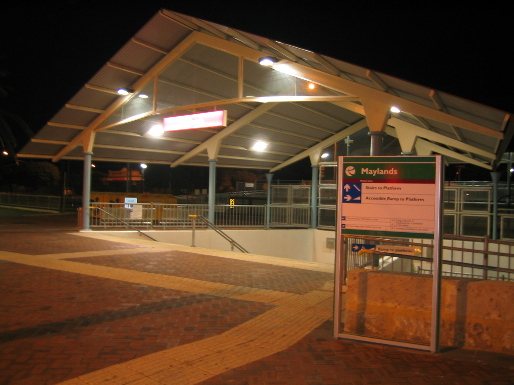 Transperth Maylands Train Station